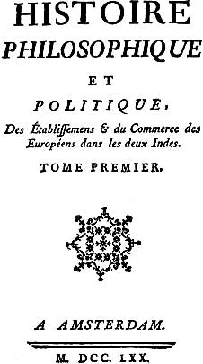 Guillaume Thomas François Raynal title page.